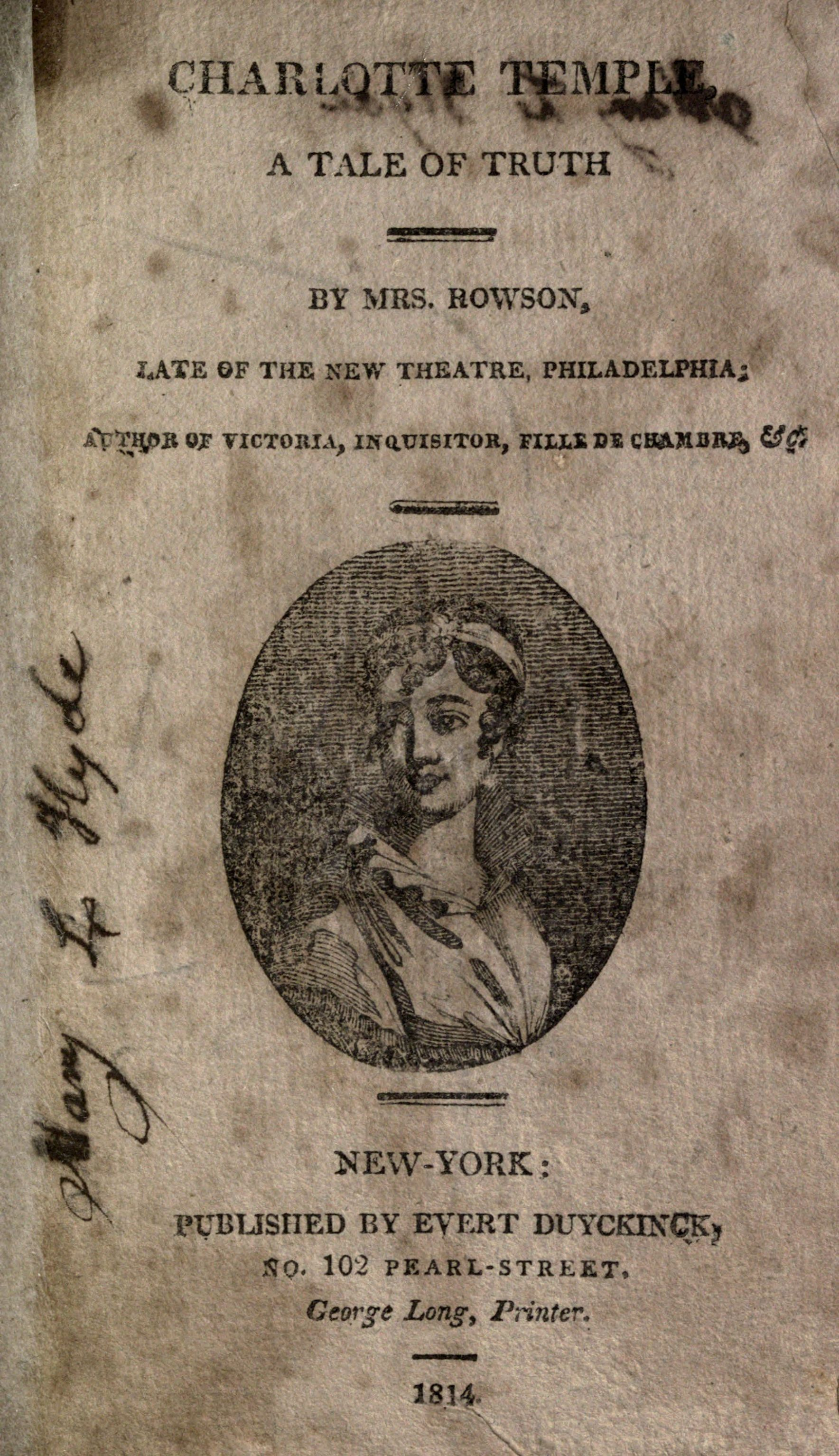 Charlotte Temple, New York, E. Duyckinck.